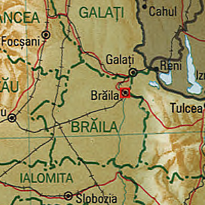 Map of Brăila Municipality, Romania.